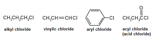 Examples of organohalogens as chlorine-halides.